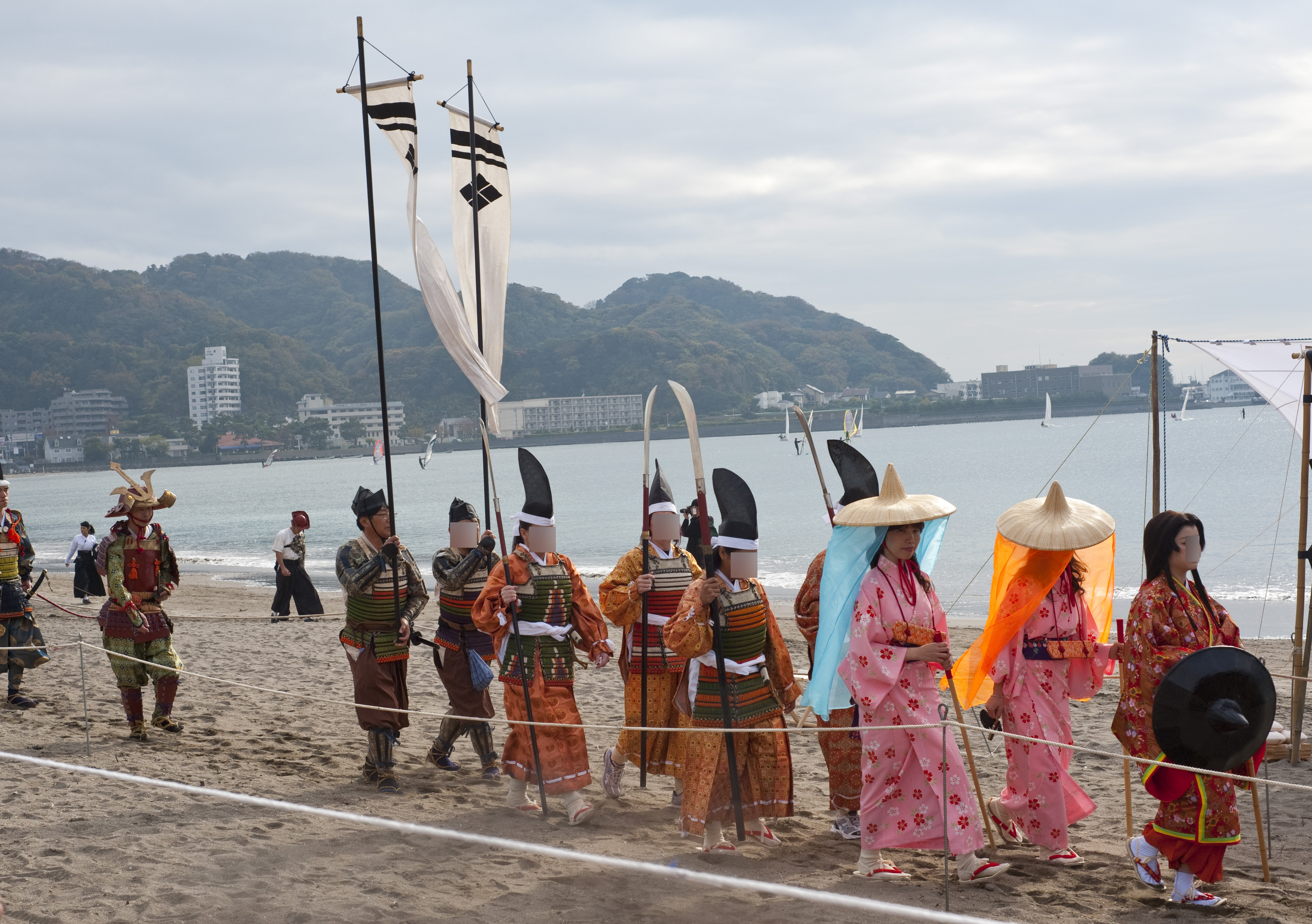 Yabusame in Zushi, November 2010